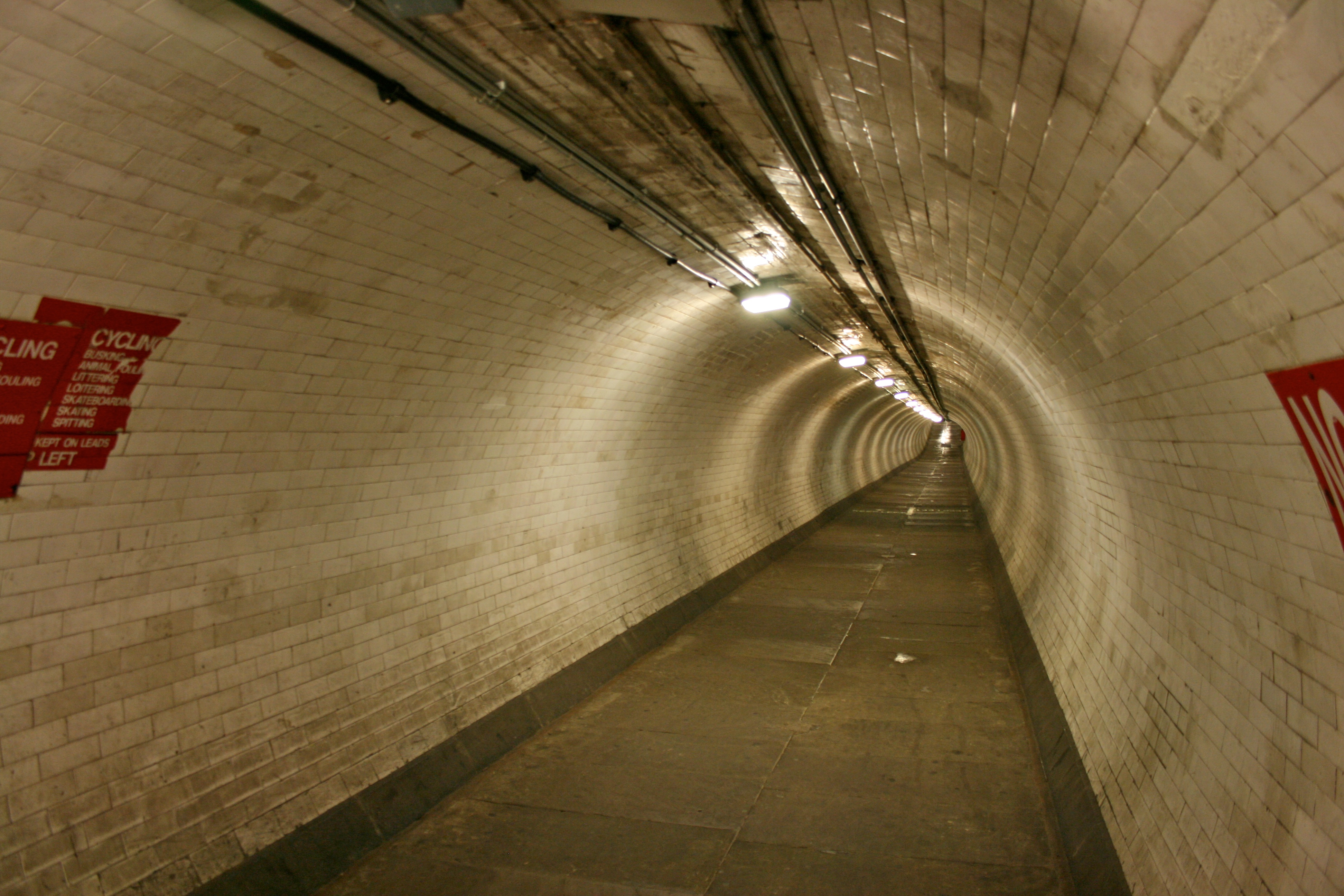 The Greenwich foot tunnel, London.